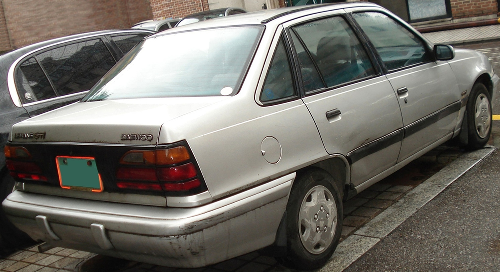 Daewoo New LeMans